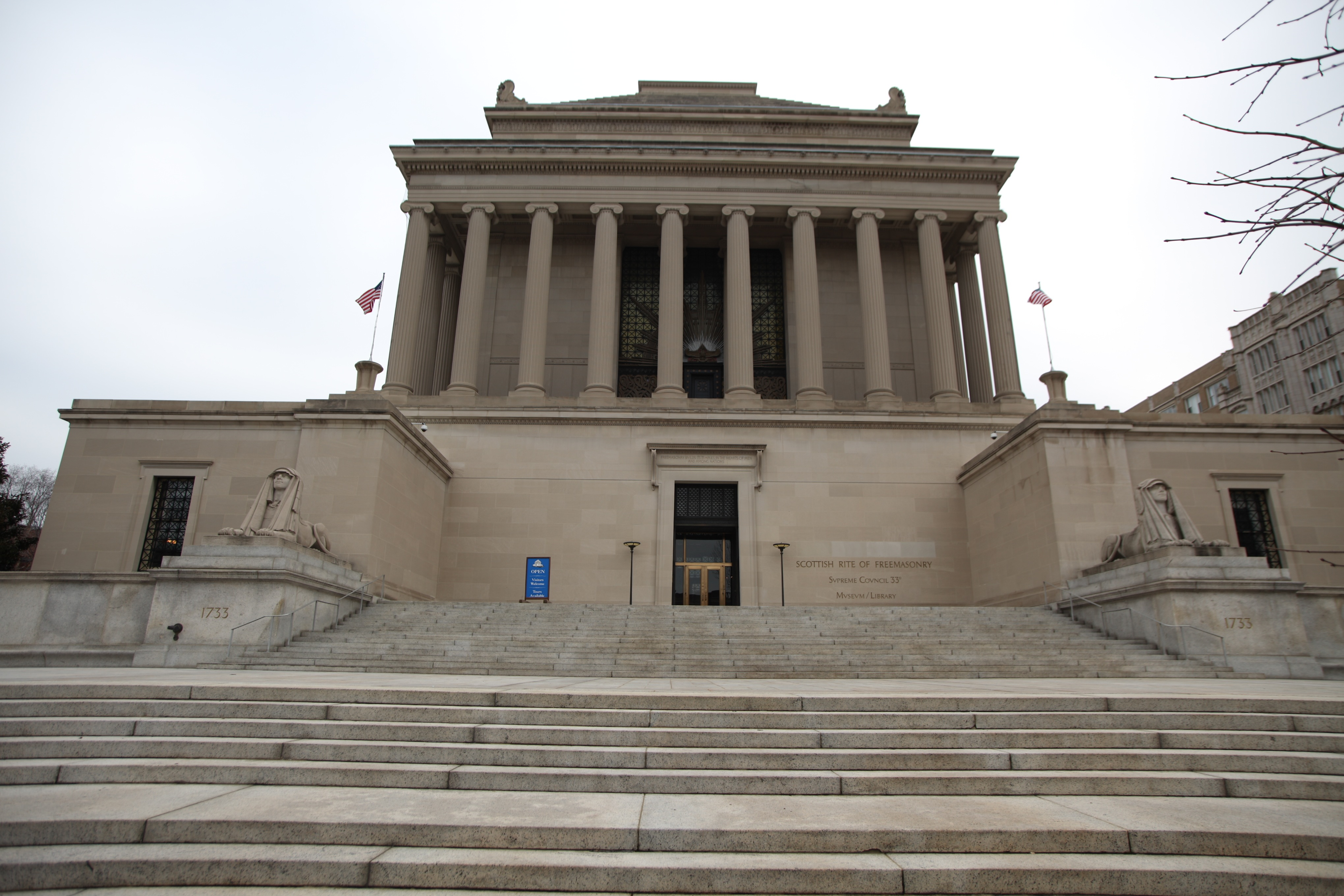 House of the Temple, the Scottish Rite temple on 16th Street NW.